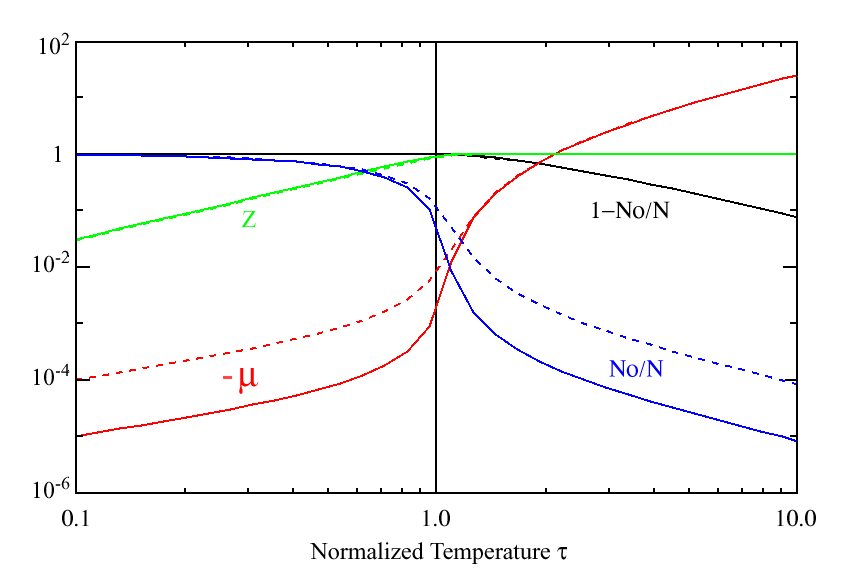 Plot of various quantities near the critical temperature for an ideal Bose-Einstein gas.